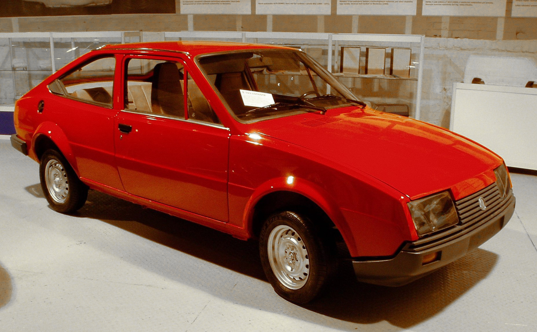 Prototype Škoda_BAZ 743 coupé Locusta with front located engine